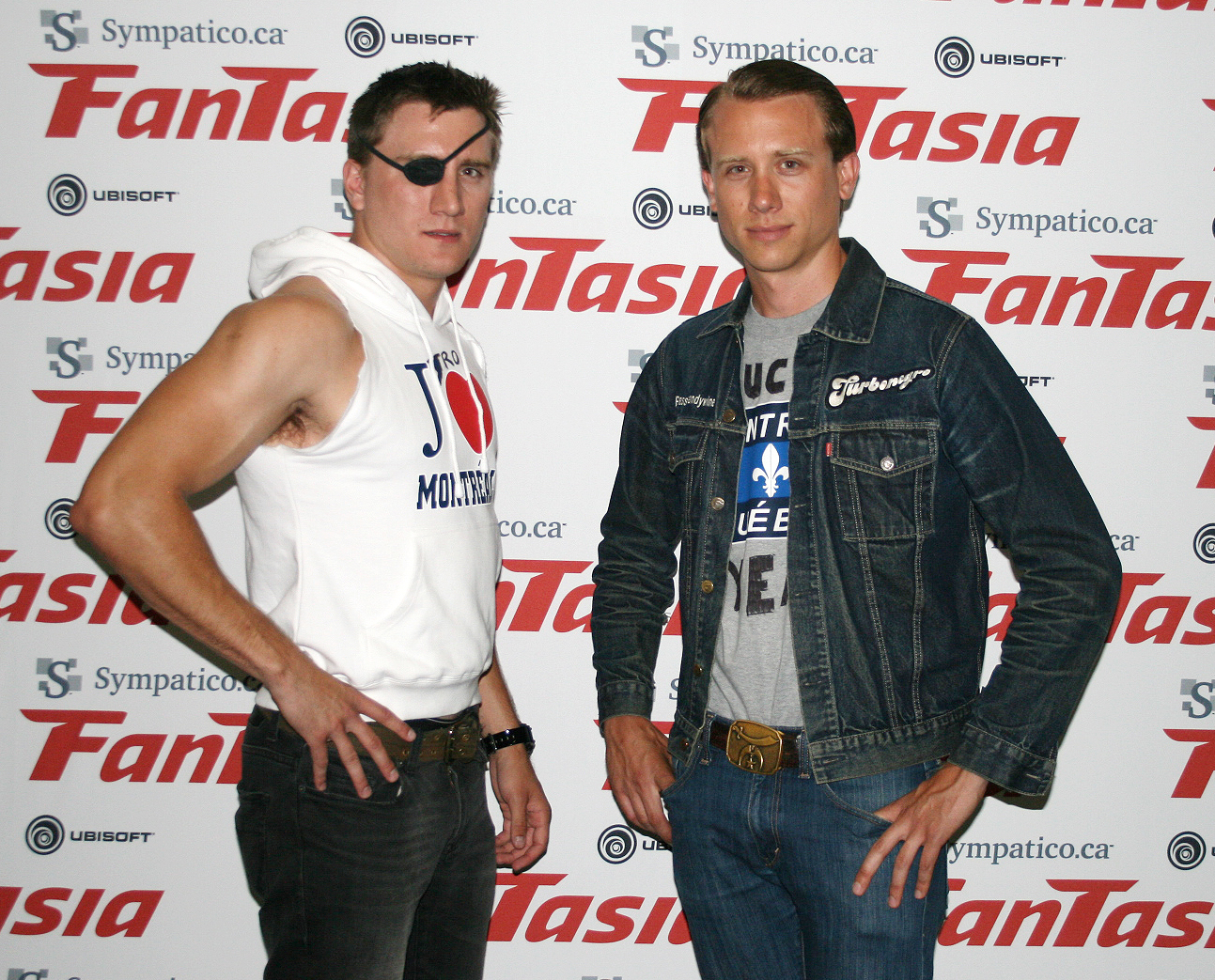 Brandon and Jason Trost live in person at the International Premiere of THE FP at Fantasia in Montreal.